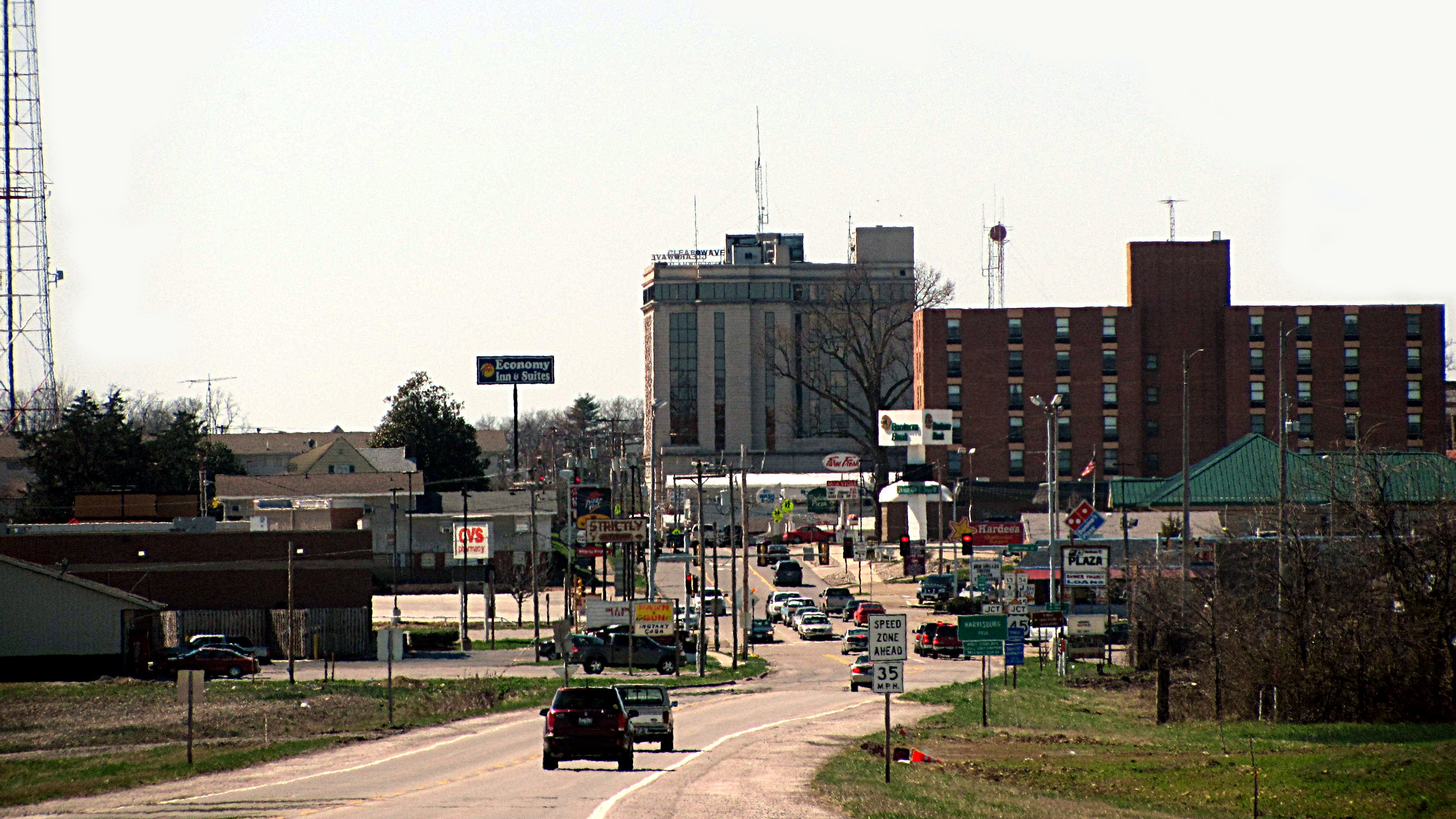 Harrisburg skyline or "Crusoe's Island" as seen from the eastern city limits.